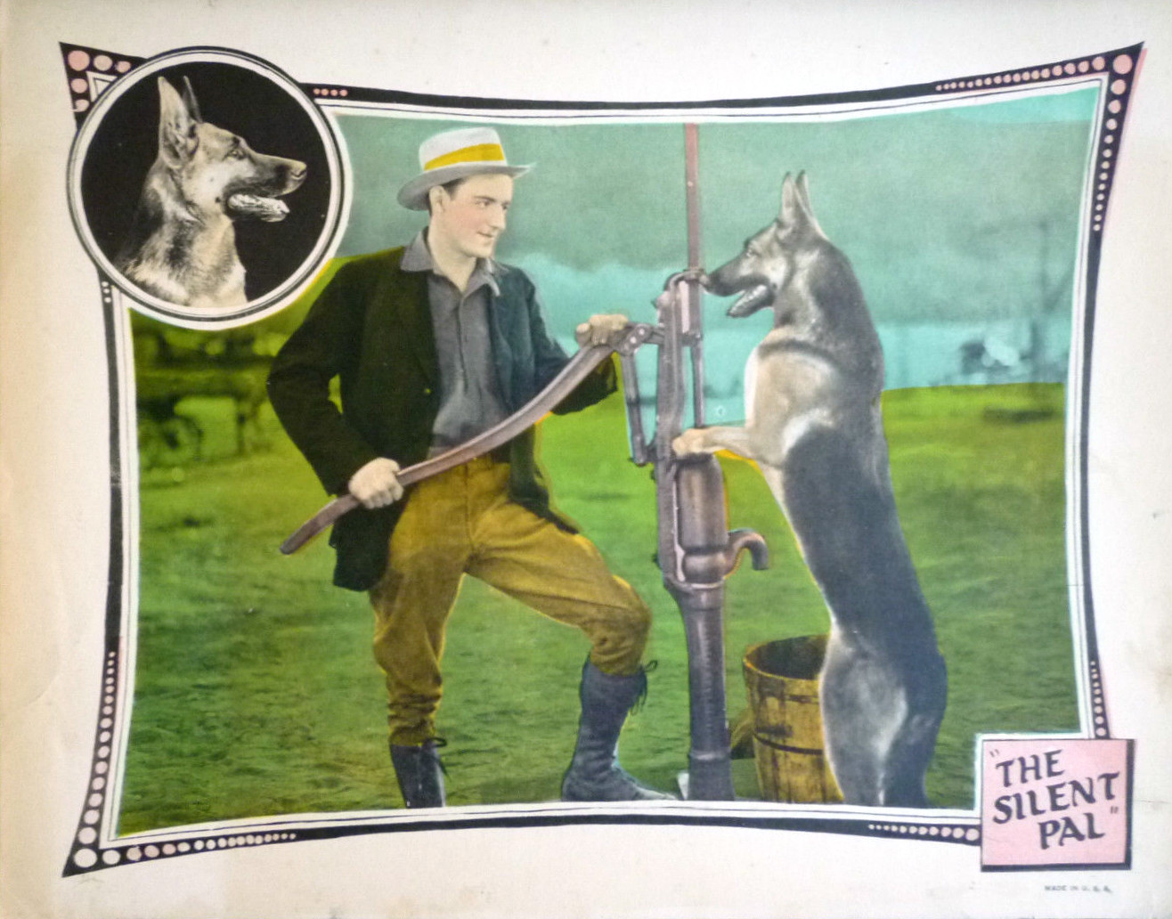 Lobby card for the 1925 film The Silent Pal.